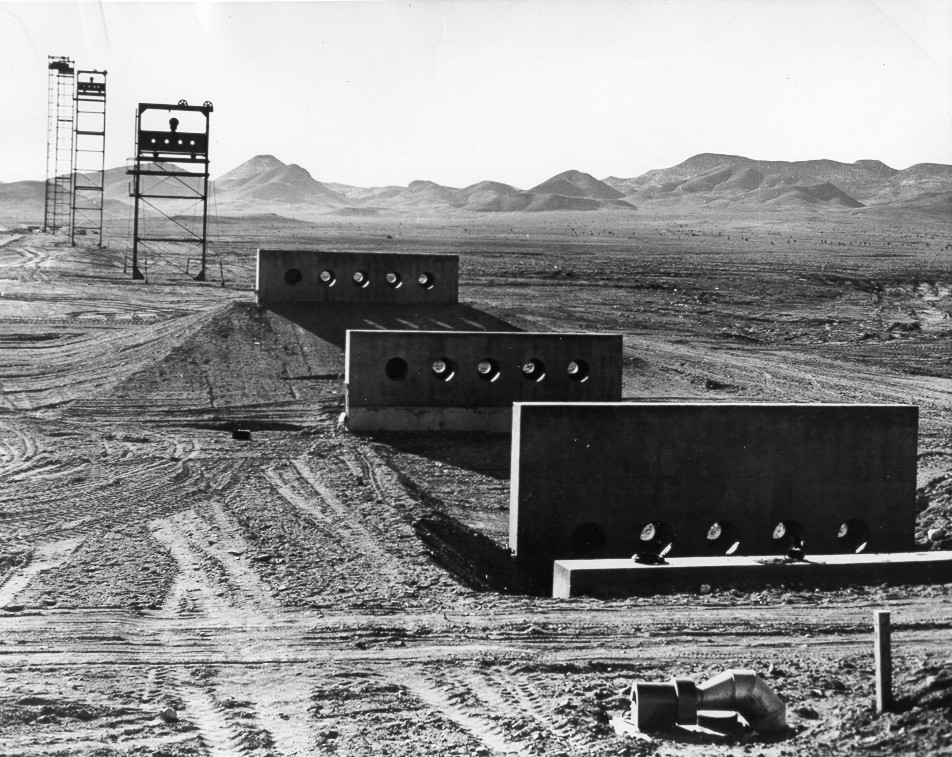 March 24, 1953 - Collimators were used March 24, 1953 for the first time in continental nuclear tests (at Nevada Proving Grounds). This system replaces a more expensive coaxial cable system for recording gamma rays or neutrons. The rays move from a portion of the detonation on the far tower through the line-of-sight holes in successive towers to an underground recording station, covering approximately 4,000 feet of transmission. In the March 24 detonation the detonation tower and portions of the others disappeared, with the remainder being scattered or twisted out of position.